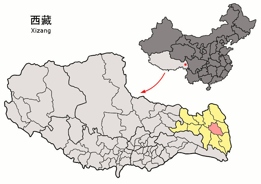 Location of Zhag'yab County (pink) and Qamdo Prefecture (yellow) within Tibet (Xizang) autonomous region of China